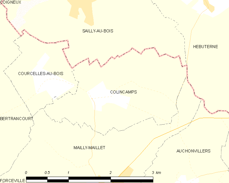 Map of French municipality Colincamps